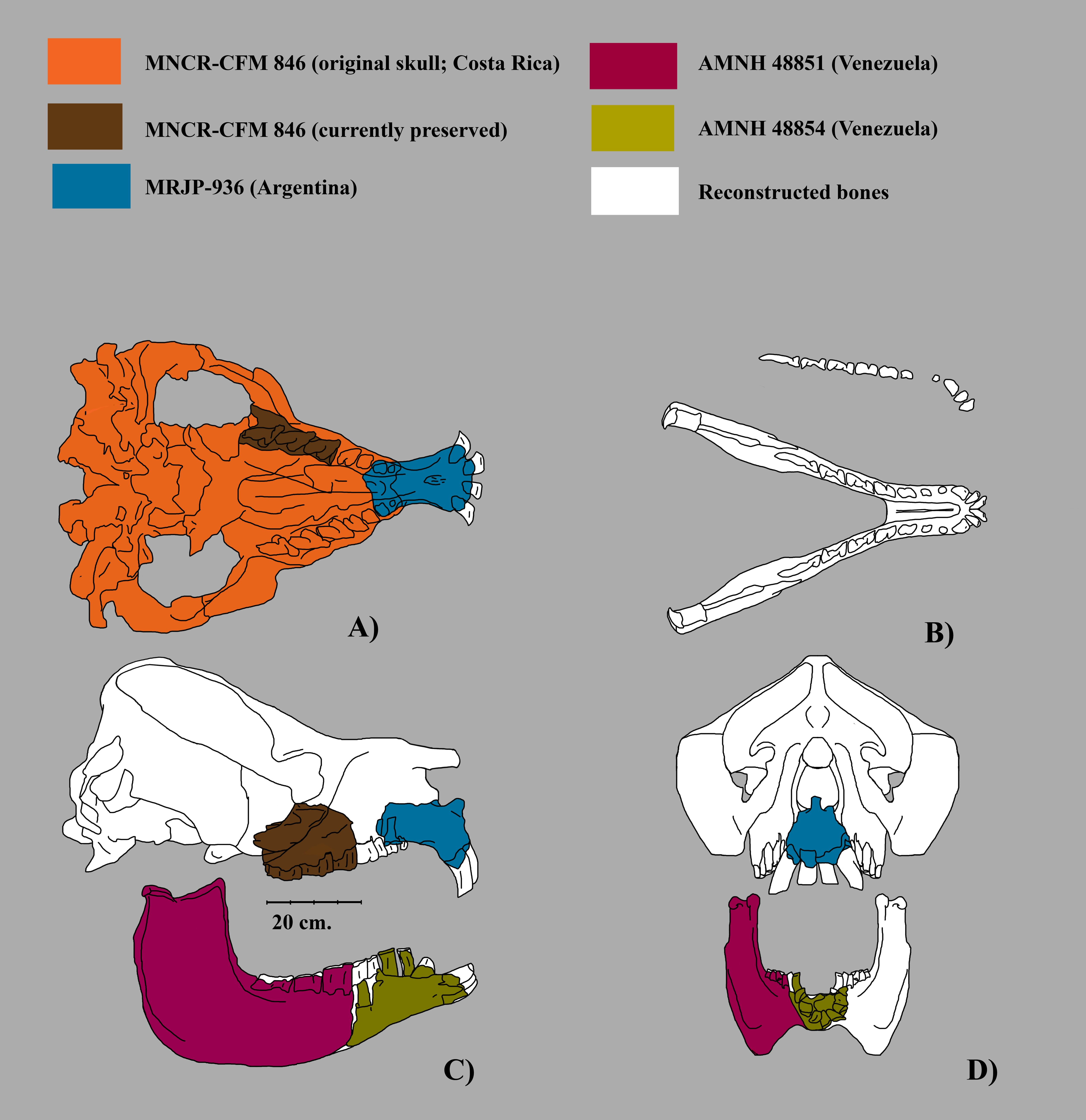 Reconstruction of the skull of the toxodontid Mixotoxodon larensis, based in multiple specimens.